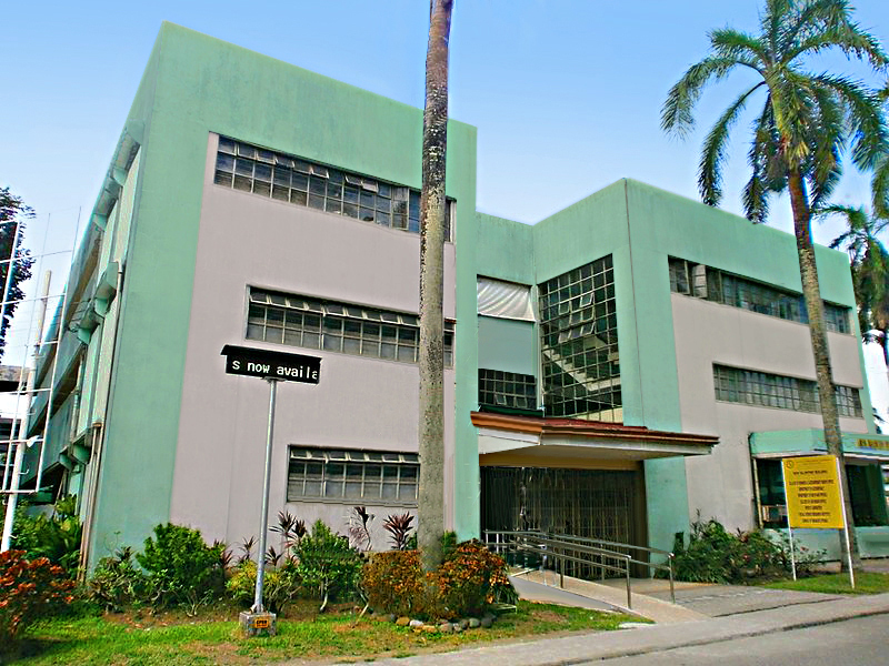 New Valentine Hall of Central Philippine University